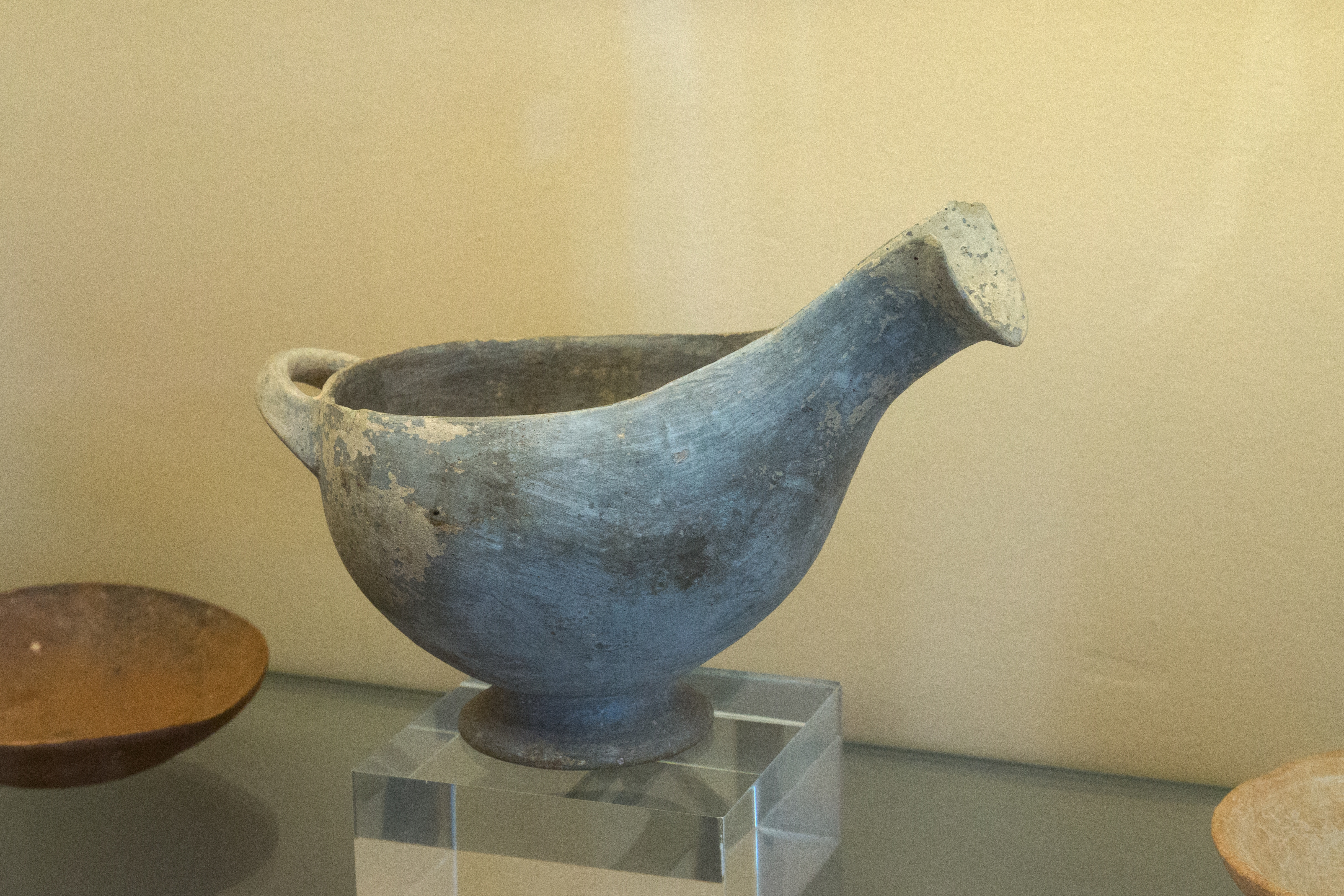 Early Cycladic pottery, bowl with handle and spout (so called "sauceboat"). From the Early Cycladic cemetery of Chalandriani on Syros. Keros-Syros group, 2700 – 2400/2300 BC. Archaeological Museum of Syros, Room 2.